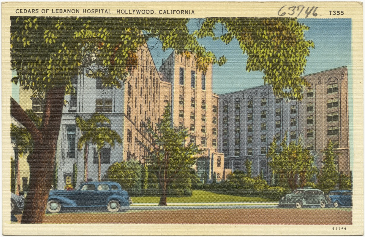 Cedars of Lebanon Hospital, Hollywood, California [ca 1930–1945]